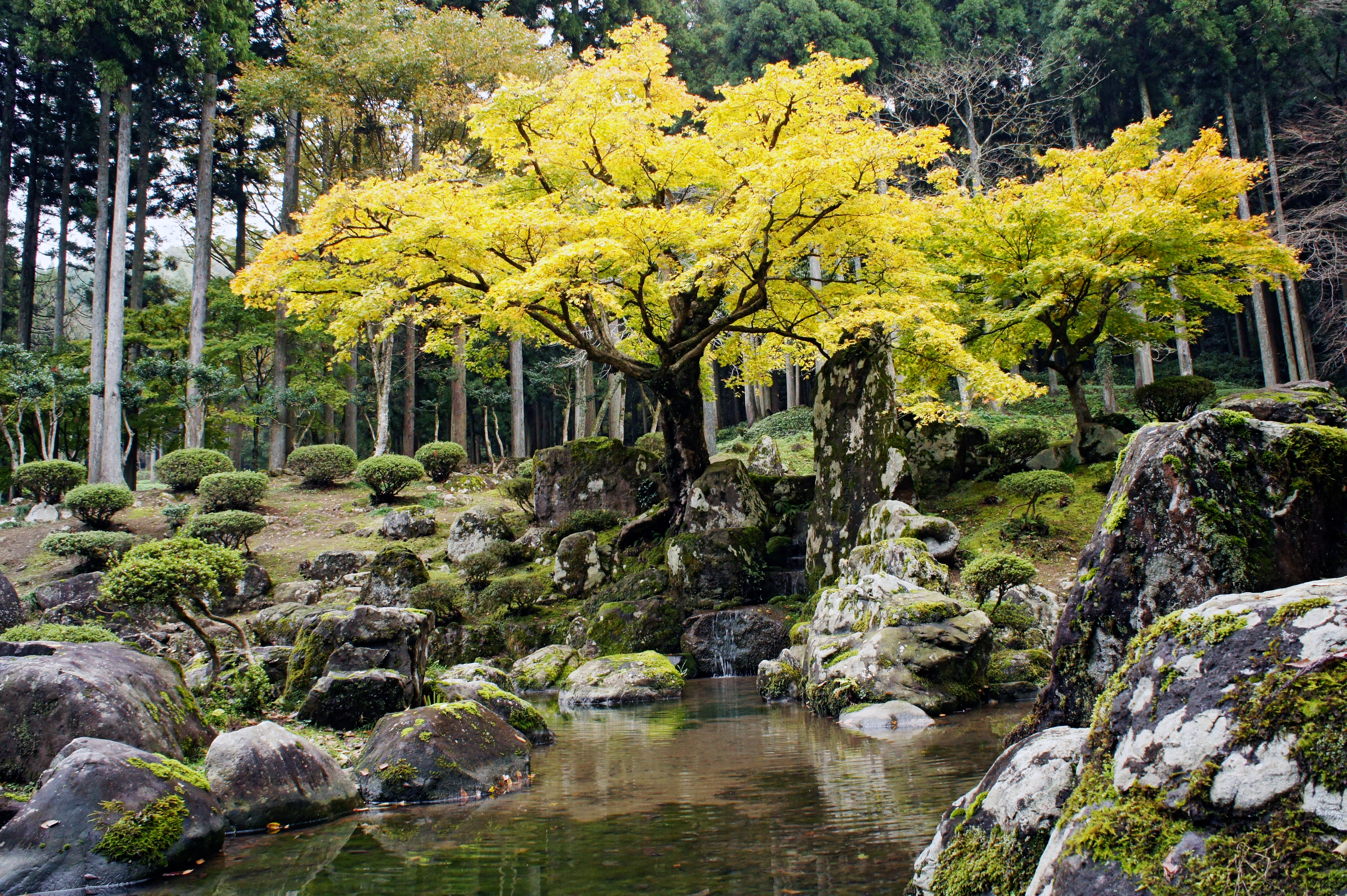 Suwa Yakata-ato Garden of Ichijōdani Asakura Family Historic Ruins is an extremely important cultural asset of Japan "Special Places of Scenic Beauty", in Fukui, Fukui prefecture, Japan.